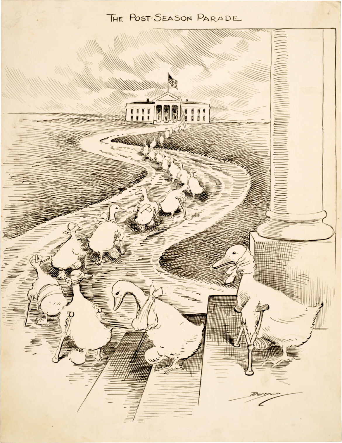 This cartoon highlights the biennial departure of "lame duck" members of congress - those who are departing Capitol Hill after losing their bid at reelection. The lame ducks in this are defeated Democrats heading to the White House hoping to secure political appointments from President Woodrow Wilson.